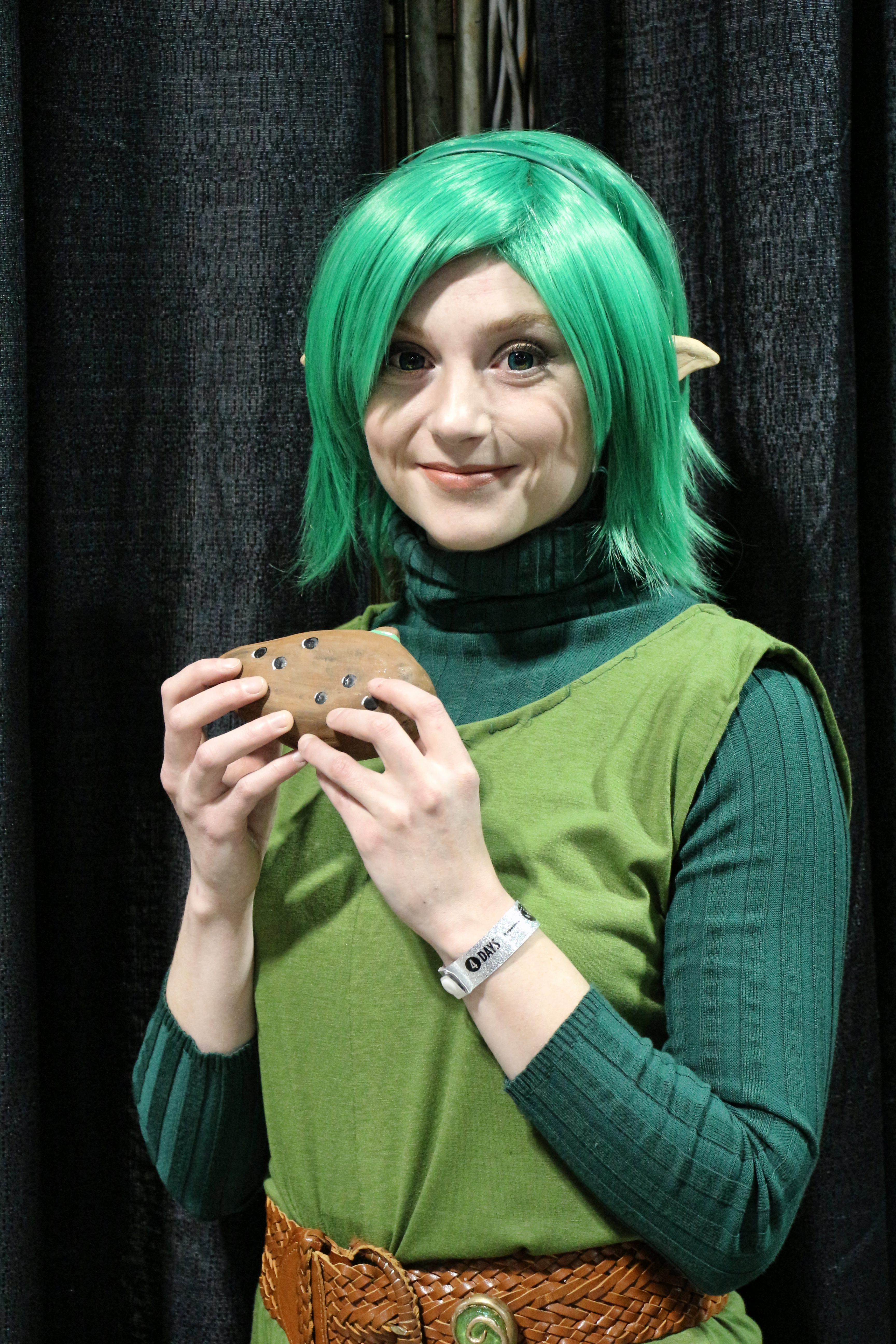 Saria - 2016 Calgary Comic & Entertainment Expo